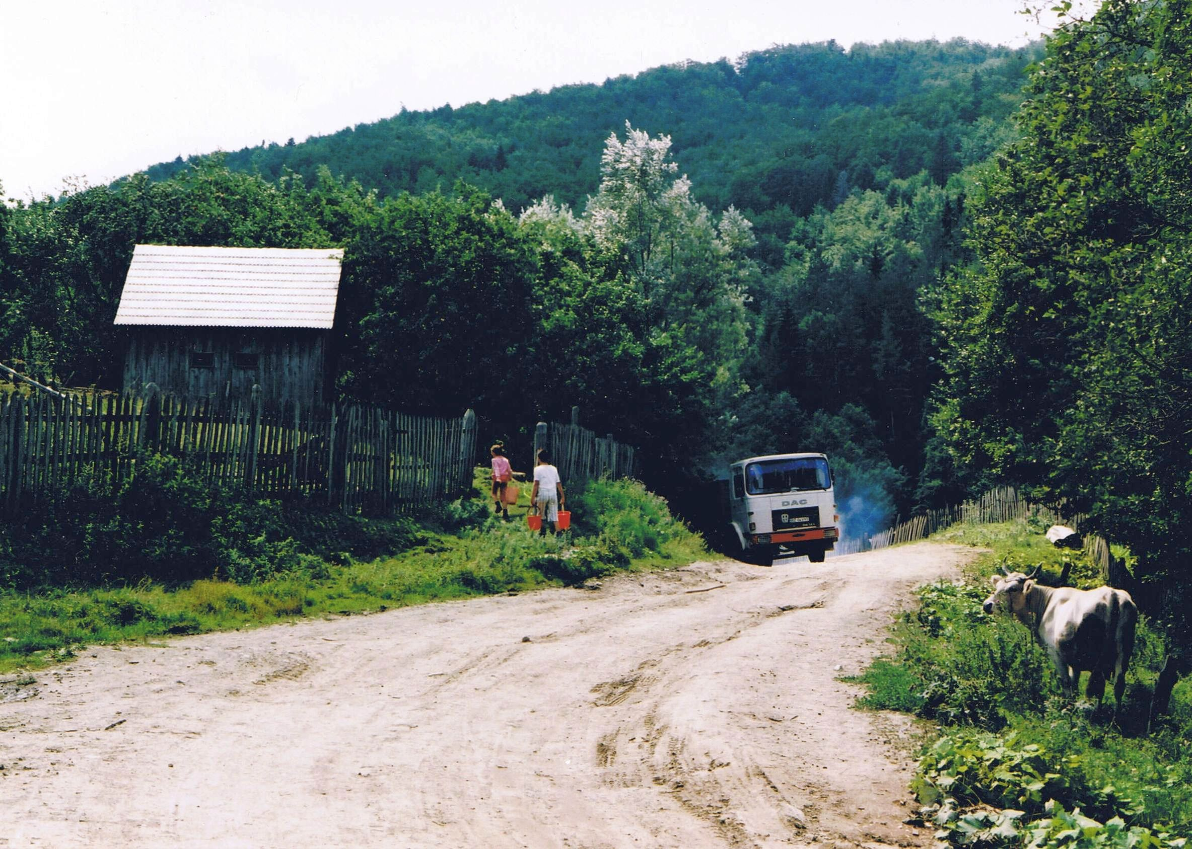 Romania